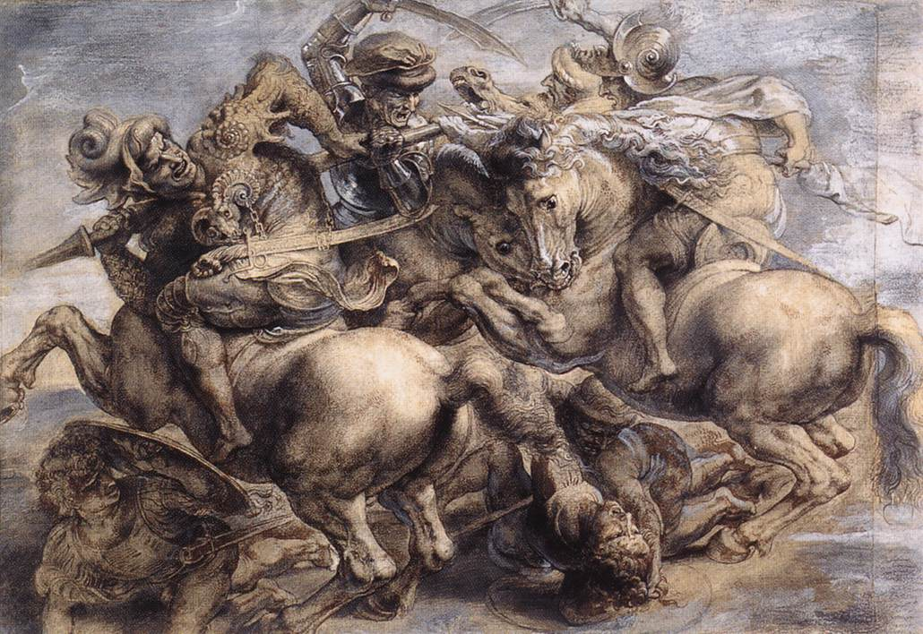 Copy after a fresco by Leonardo da Vinci depicting the Battle of Anghiari in the Palazzo della Signoria in Florence, executed in 1504-1505 and destroyed around 1560.